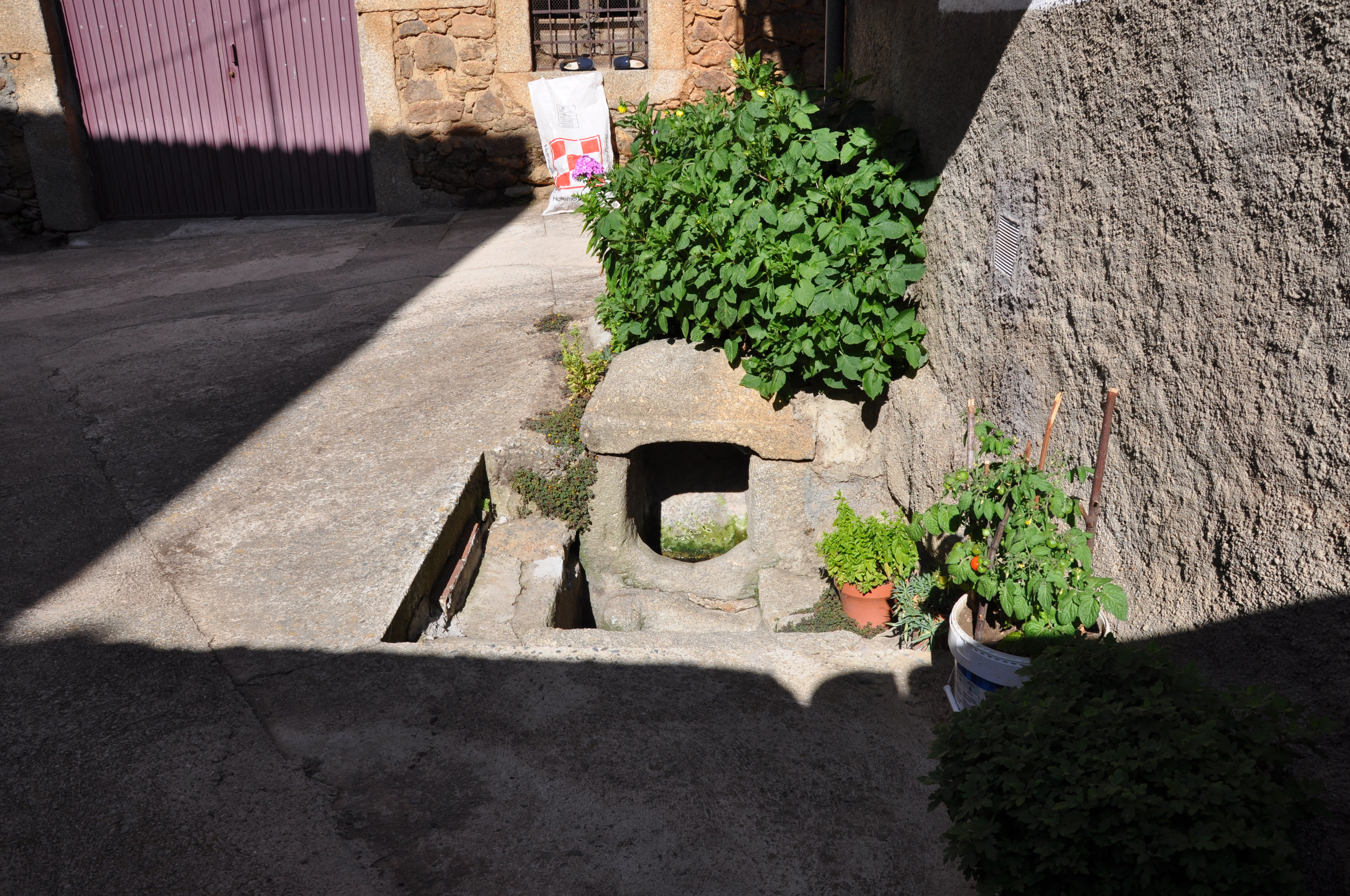 Small fountain del Llanillo, 13th century, Becedas, Ávila, Spain